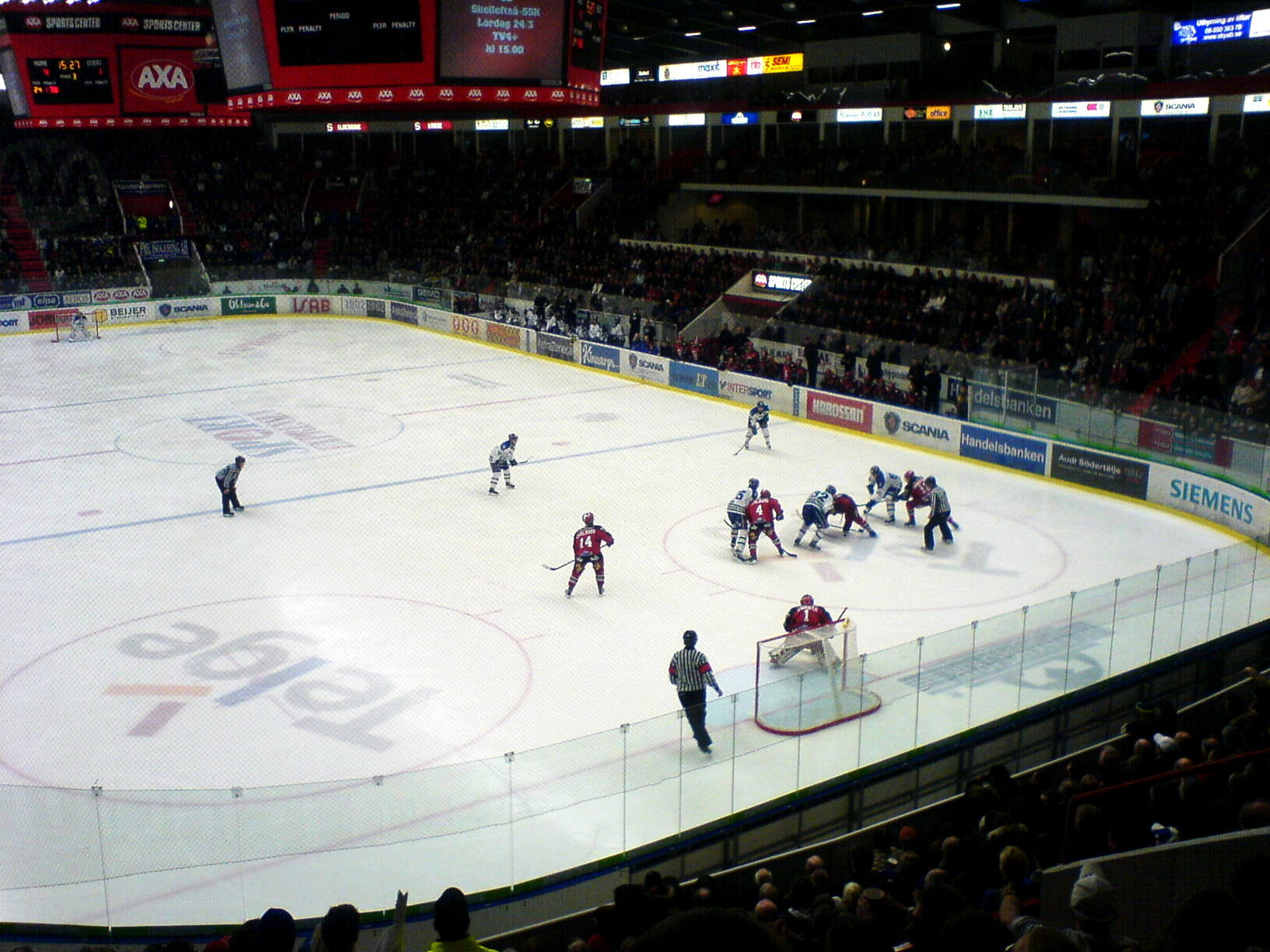 A Kvalserien ice hockey game between Södertälje SK and Leksands IF in Axa Sports Center, Södertälje, Sweden